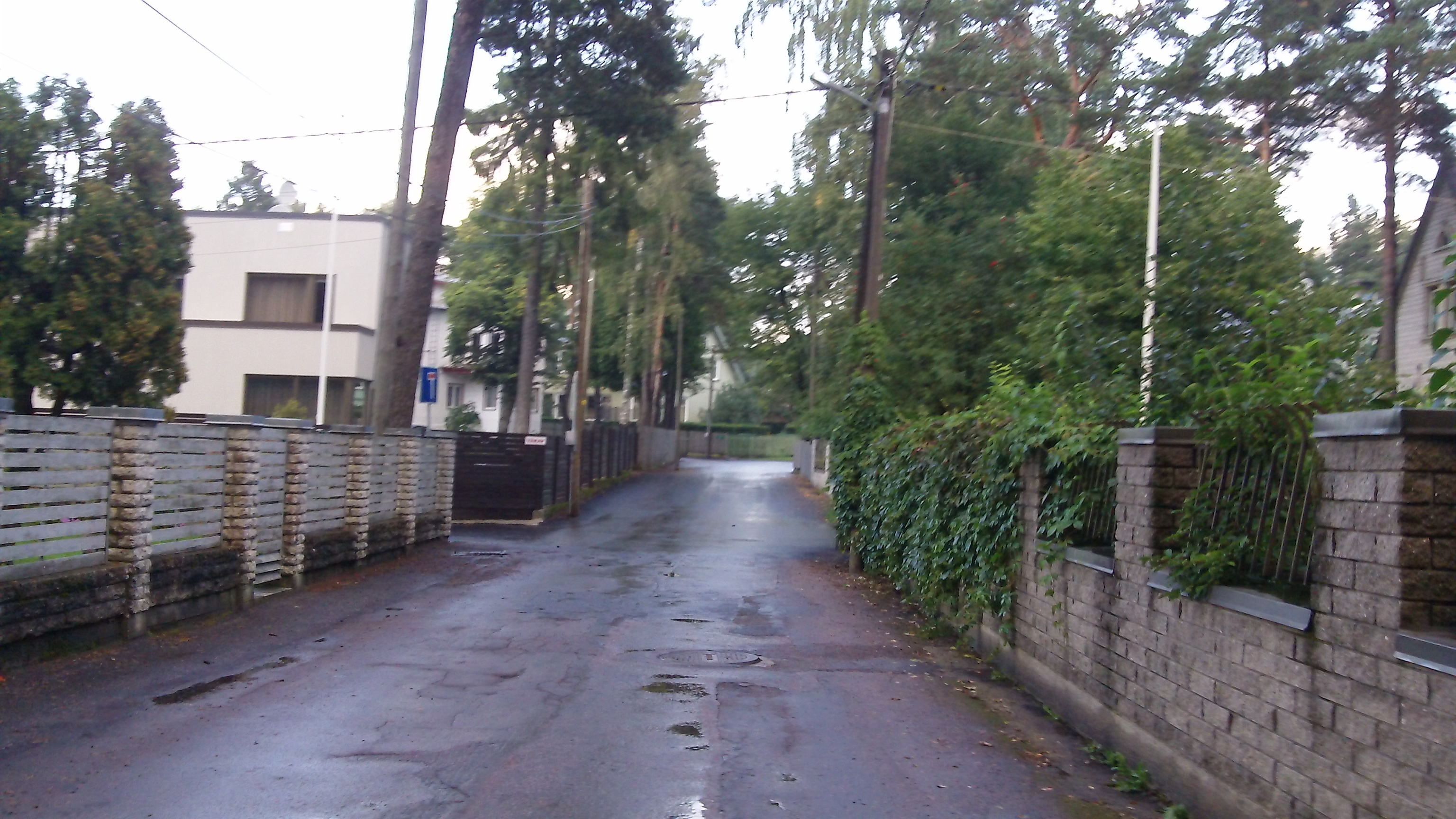 Nõmme, Tallinn, Estonia